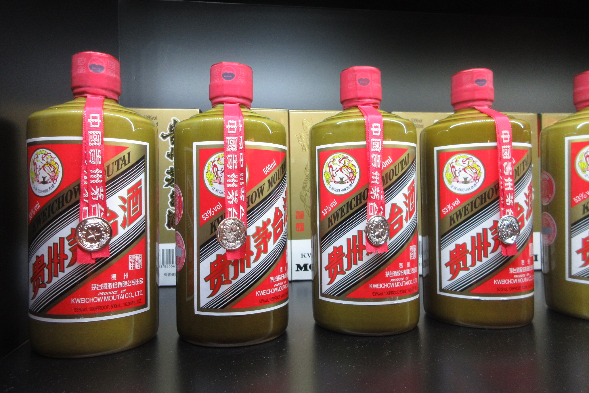 HK Wan Chai North 君悅酒店 Grand Hyatt Hotel 保利集團 Poly Auction Preview exhibition in September 2017